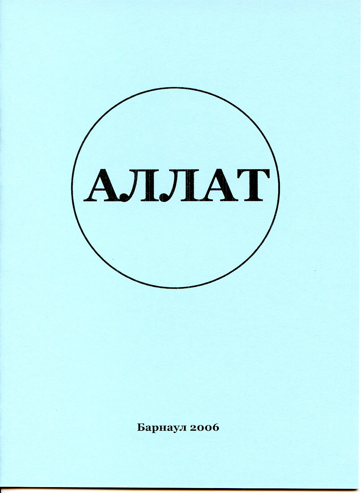 The Goddess' hymns. ALLAT Devotees Circle.